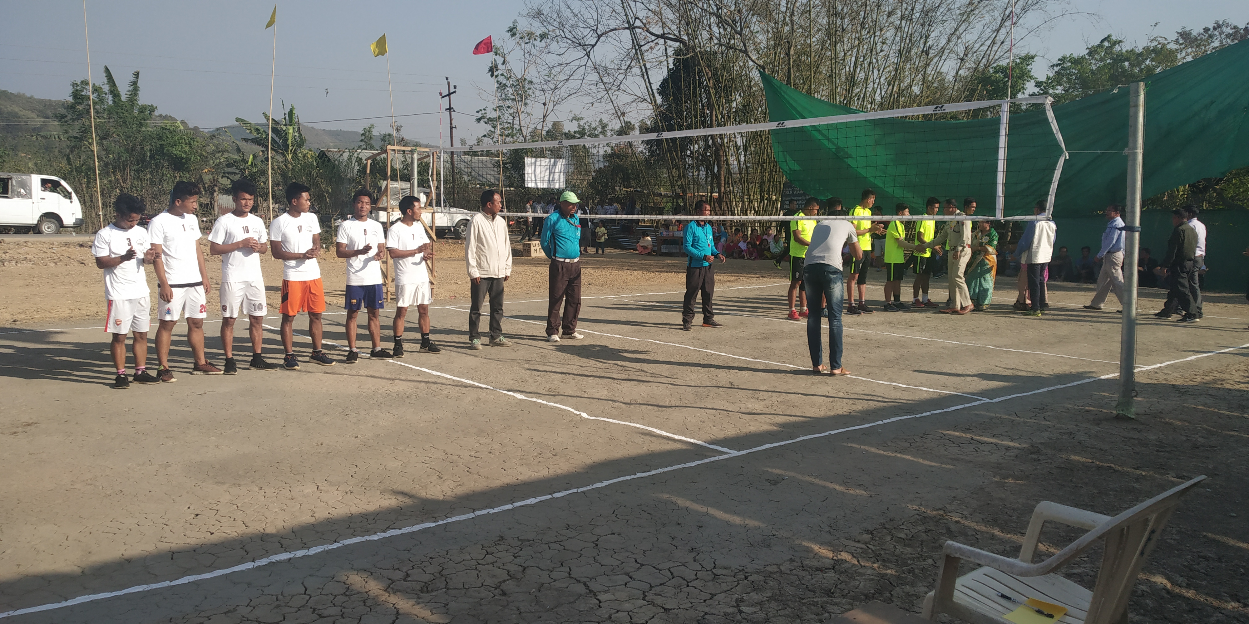 Chajing Khunou Welfare Club (CKWC) organized 1st State Level Men's Volleyball in Chajing Khunou, 24 March to 28 March 2019.